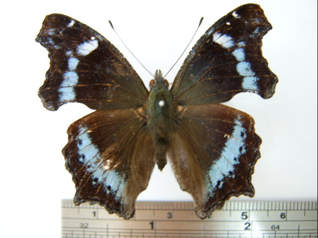 Kerry took this picture at his house on 16 July 2005 Scientific name: Kaniska canace drilon Date of collection: 28 III 1997 Place of collection: Taipei city, Taiwan